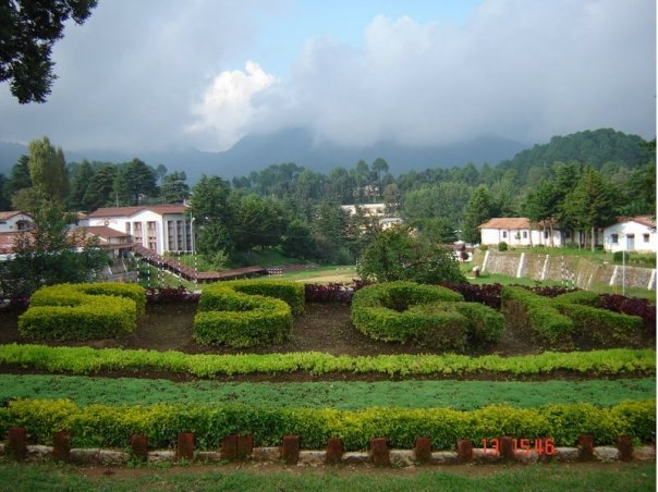 Garden of sainik school ghorakhal. maintained by the students